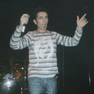 Christy Dignam of Aslan performing onstage